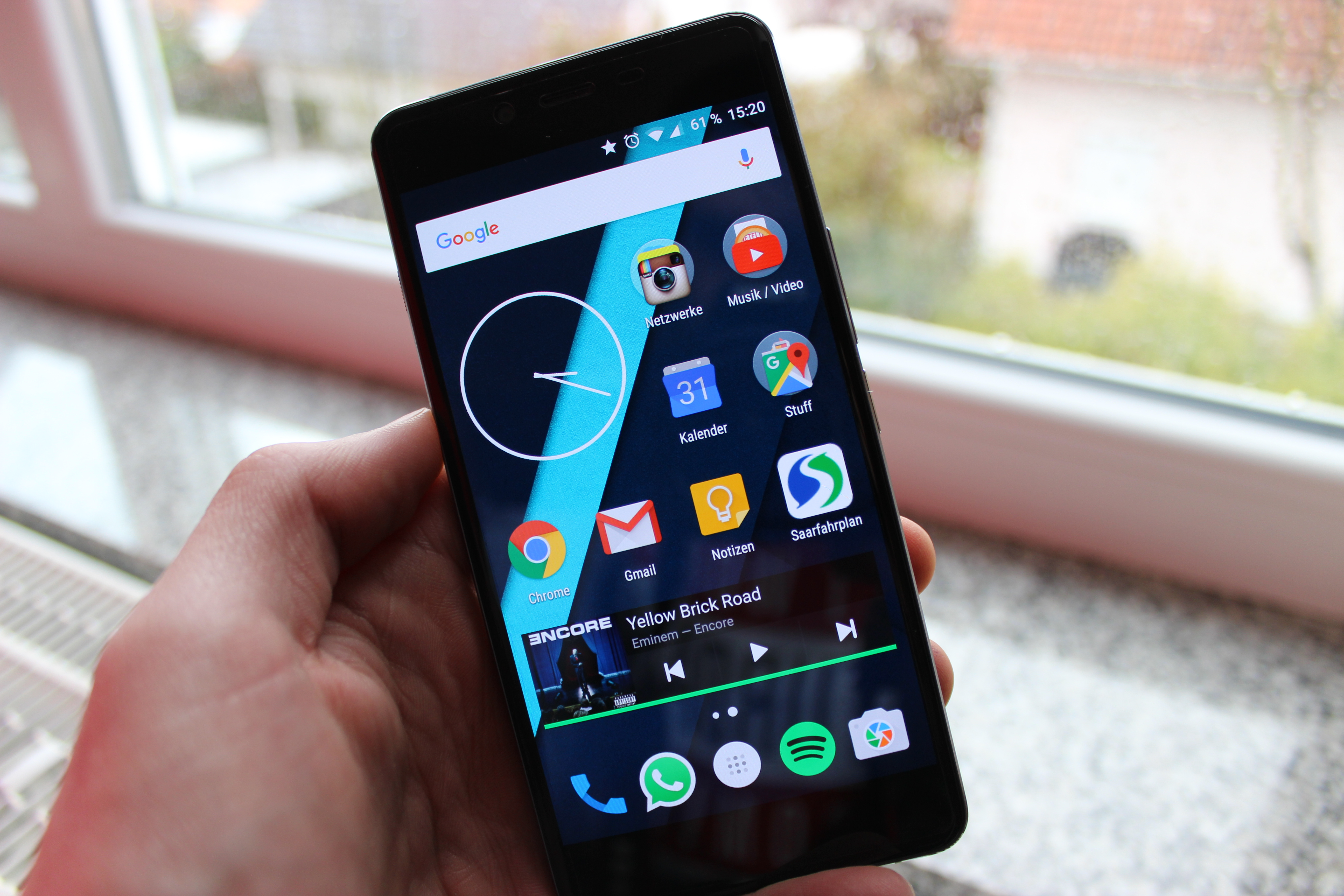 OnePlus X